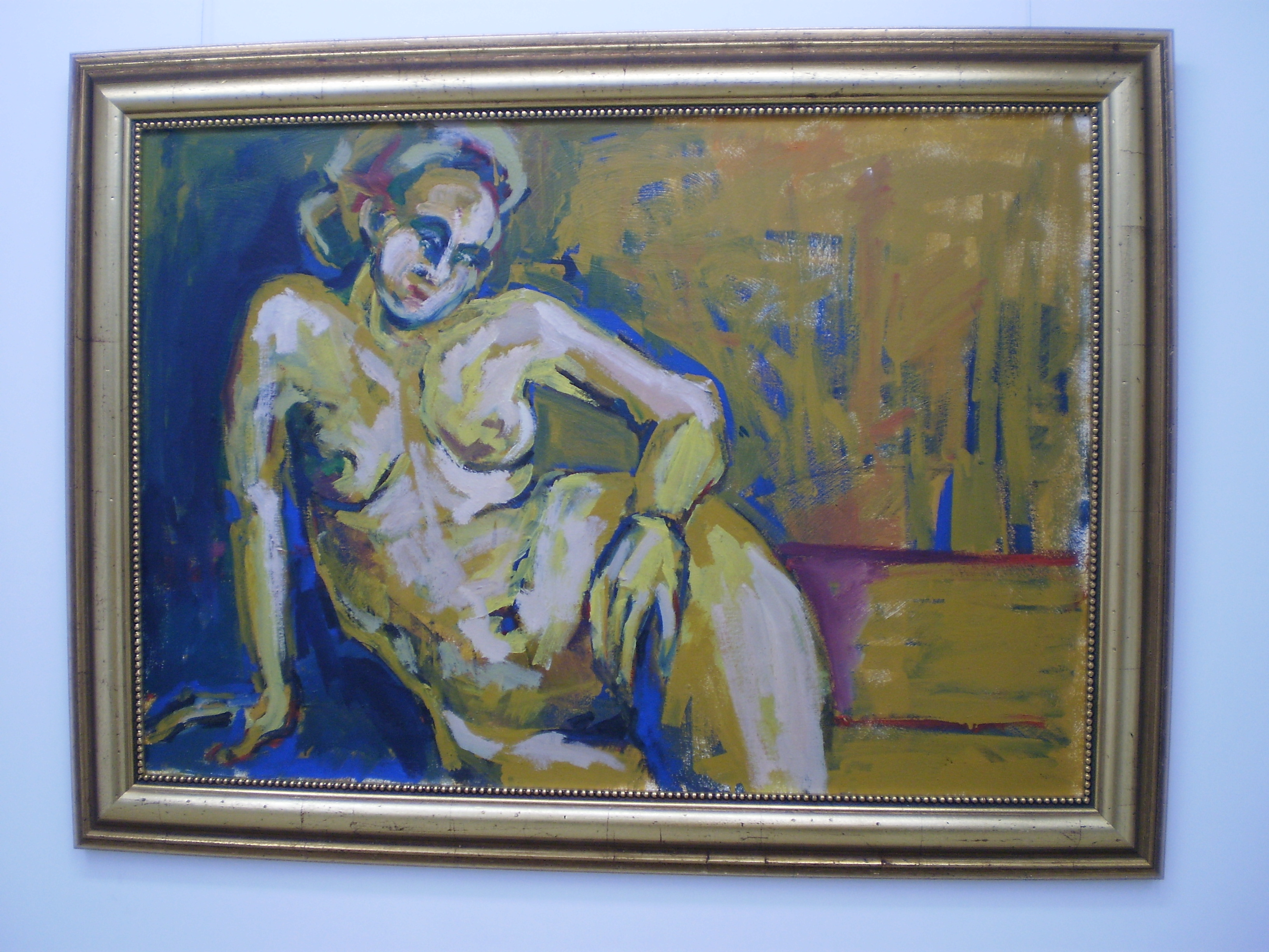 Sonja Vukašinović, Niš, Serbia